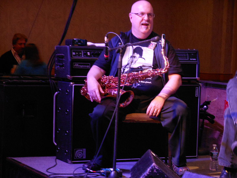 Saxophonist Tom Scott at a Beatles convention in Secaucus, New Jersey in 2013